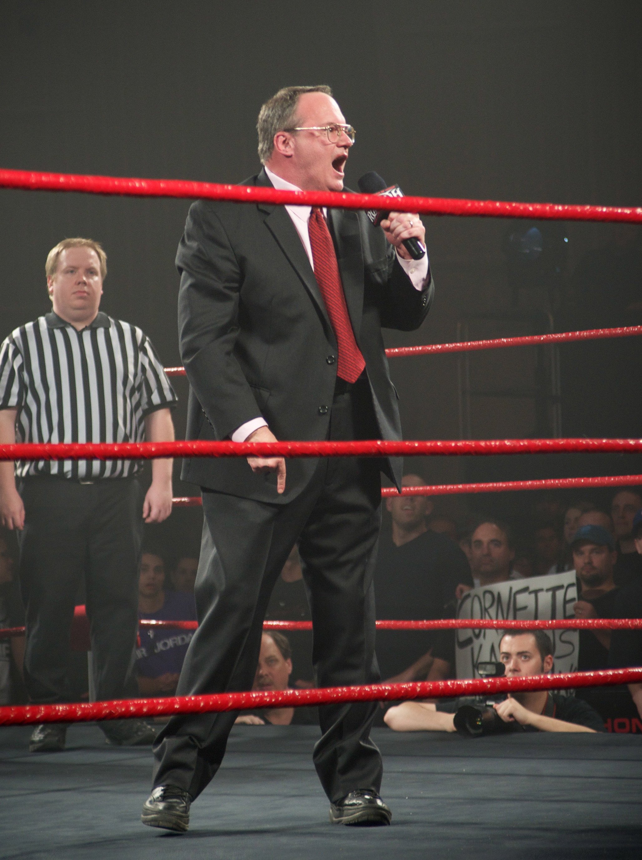 Jim Cornette at a Ring of Honor show in 2011.